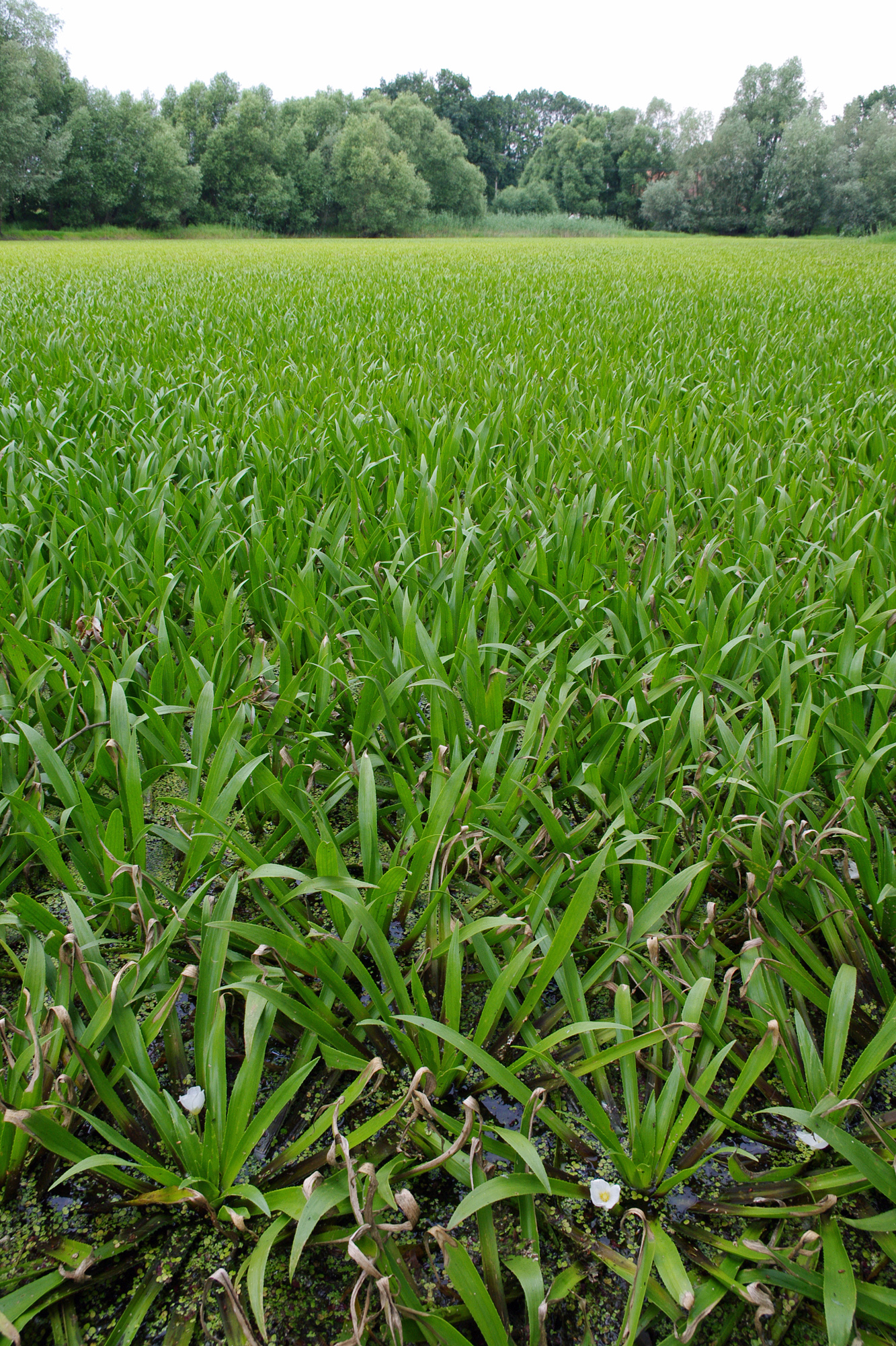 Mass occurence of the plant Water soldier (Stratiotes aloides) in a 10,000 m² pond in the Elbe valley.